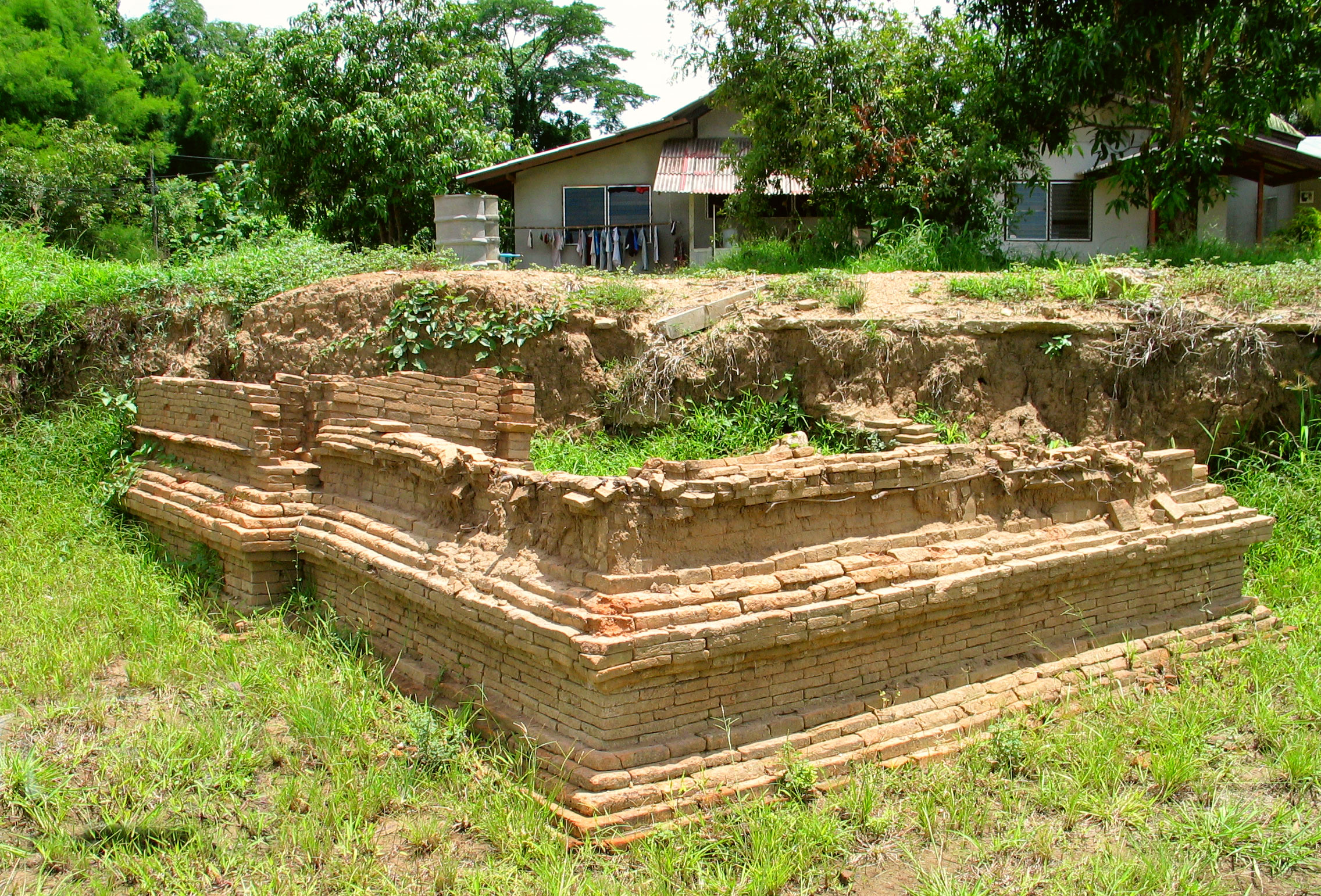 Wat Ku Padom, Wiang Kum Kam, Chiang Mai